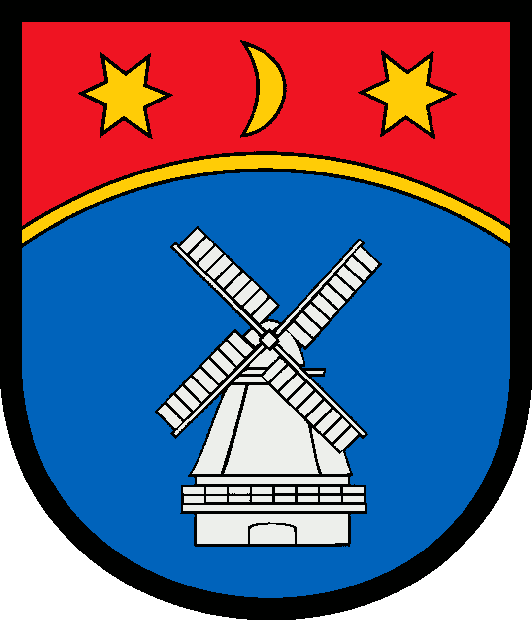 Coat of arms of the municipality Rodenäs in Schleswig-Holstein, Germany.